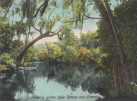 Canoeing on the Upper Tomoka River near Ormond Beach (NE Florida). From a c. 1905 postcard.